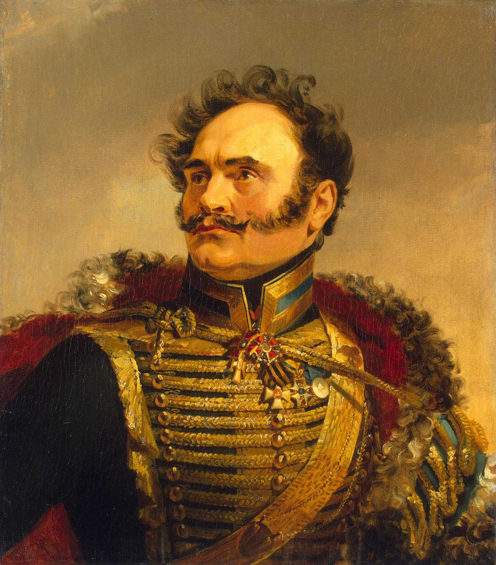 Egor Fyodorovich Stal 2-nd (28.10.1777 – 11.04.1862) russian general